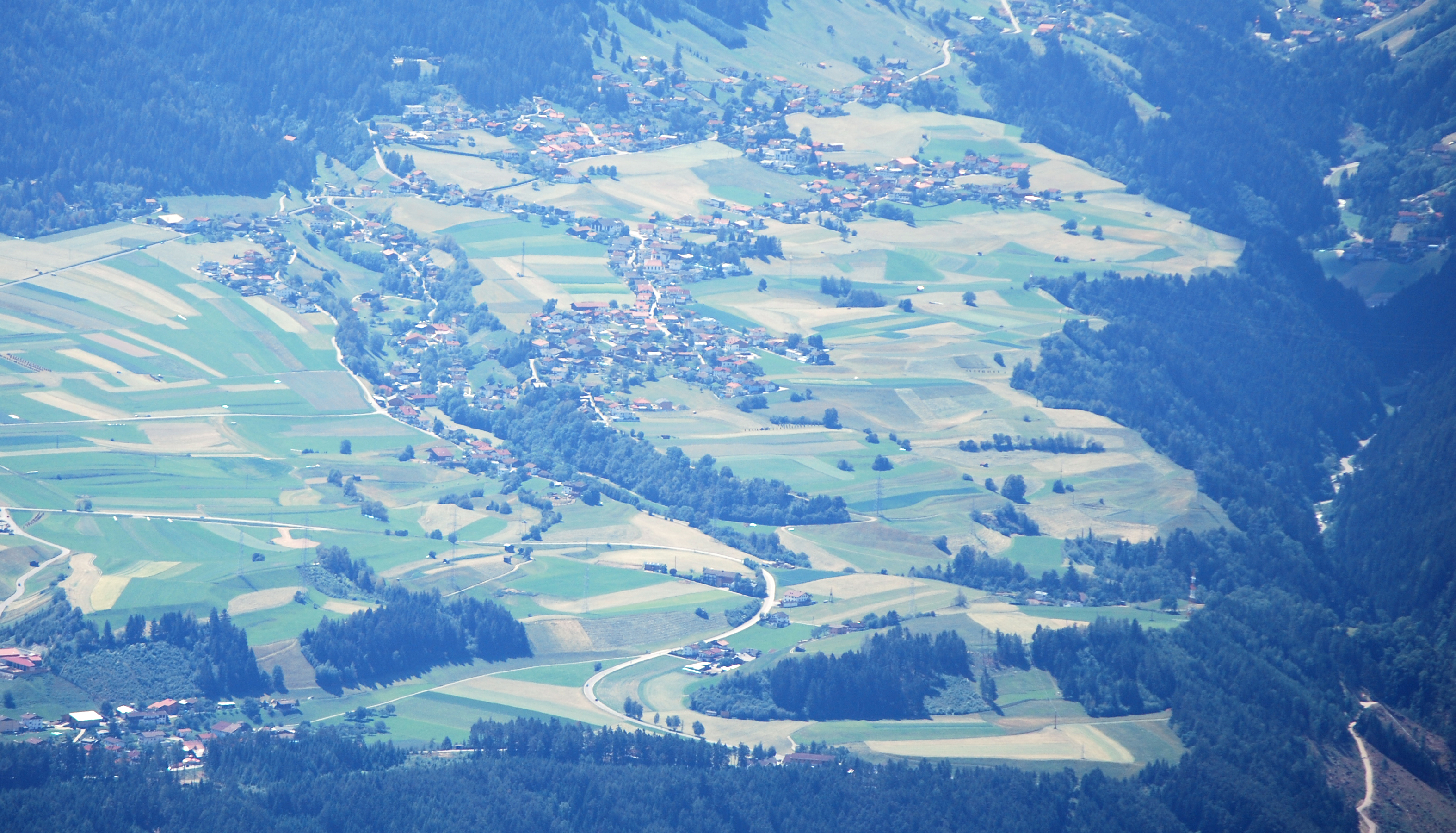 Grinzens from NE